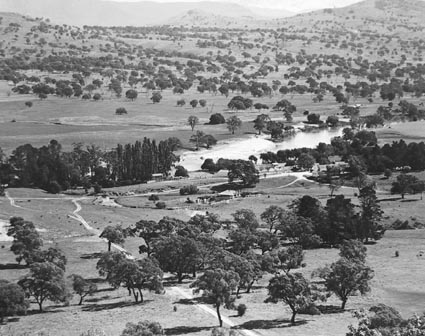 Aerial view of Lanyon Station ACT and surrounding scenery, 1950 from the collection of the National Archives of Australia: Image no. : A1200, L13095